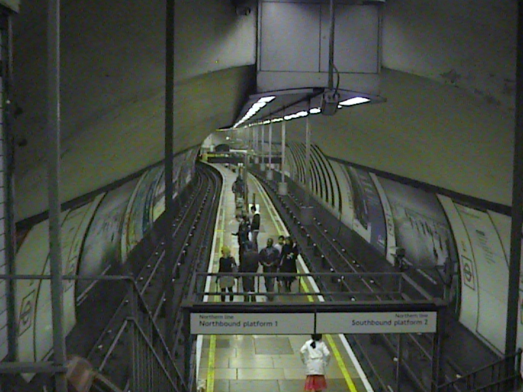 The Northern line platforms at Clapham North tube station in London. Image created on 7 April 2007 by Andrew Hamm. (see metadata below).